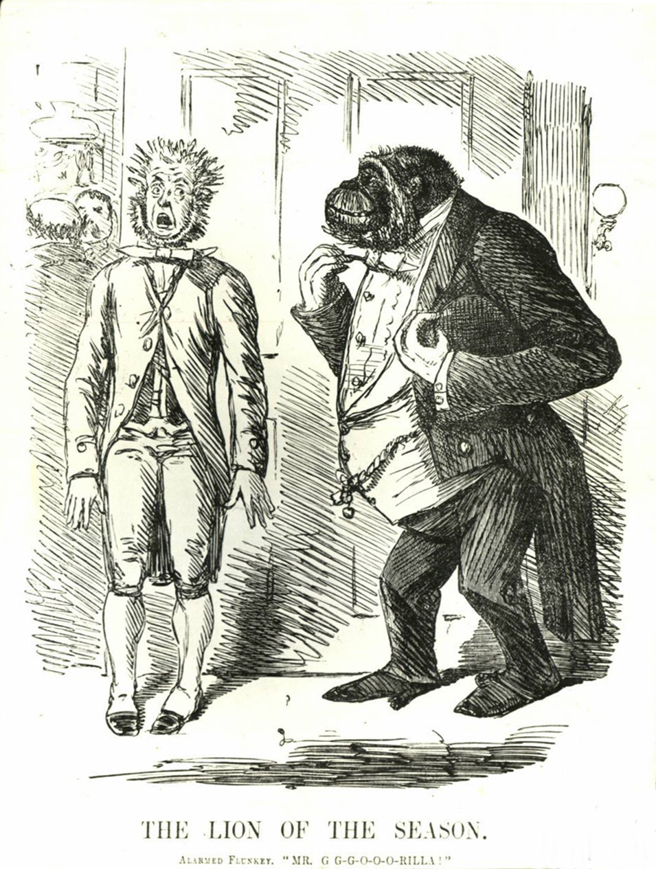 Source analysis: Referring to the simian ancestry of man claimed by supporters of Charles R. Darwin’s theory of evolution, this illustration reverses the role of humans and their subaltern ancestors. It shows a gorilla, smartly dressed in evening wear, standing in the hallway of a house in which a reception is taking place. The flunkey who has opened the door to the gorilla is ’Alarmed’ and stammers ’MR. G G-G-O-O-O-RILLA!’.